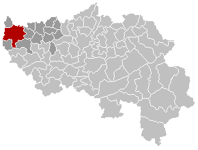 Map, municipality belgium Hannut